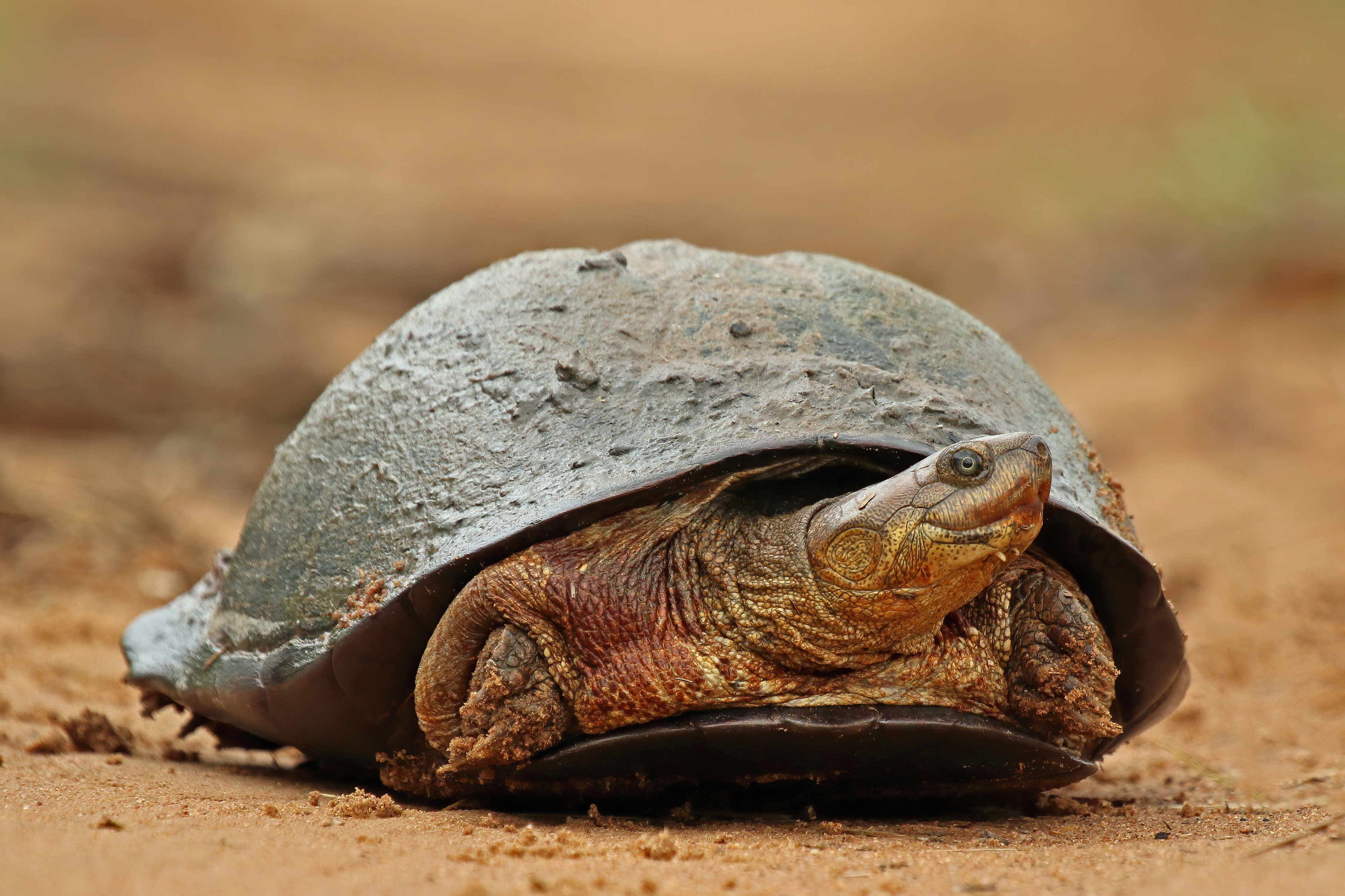 African helmeted turtle (Pelomedusa subrufa), Phinda Private Game Reserve, South Africa